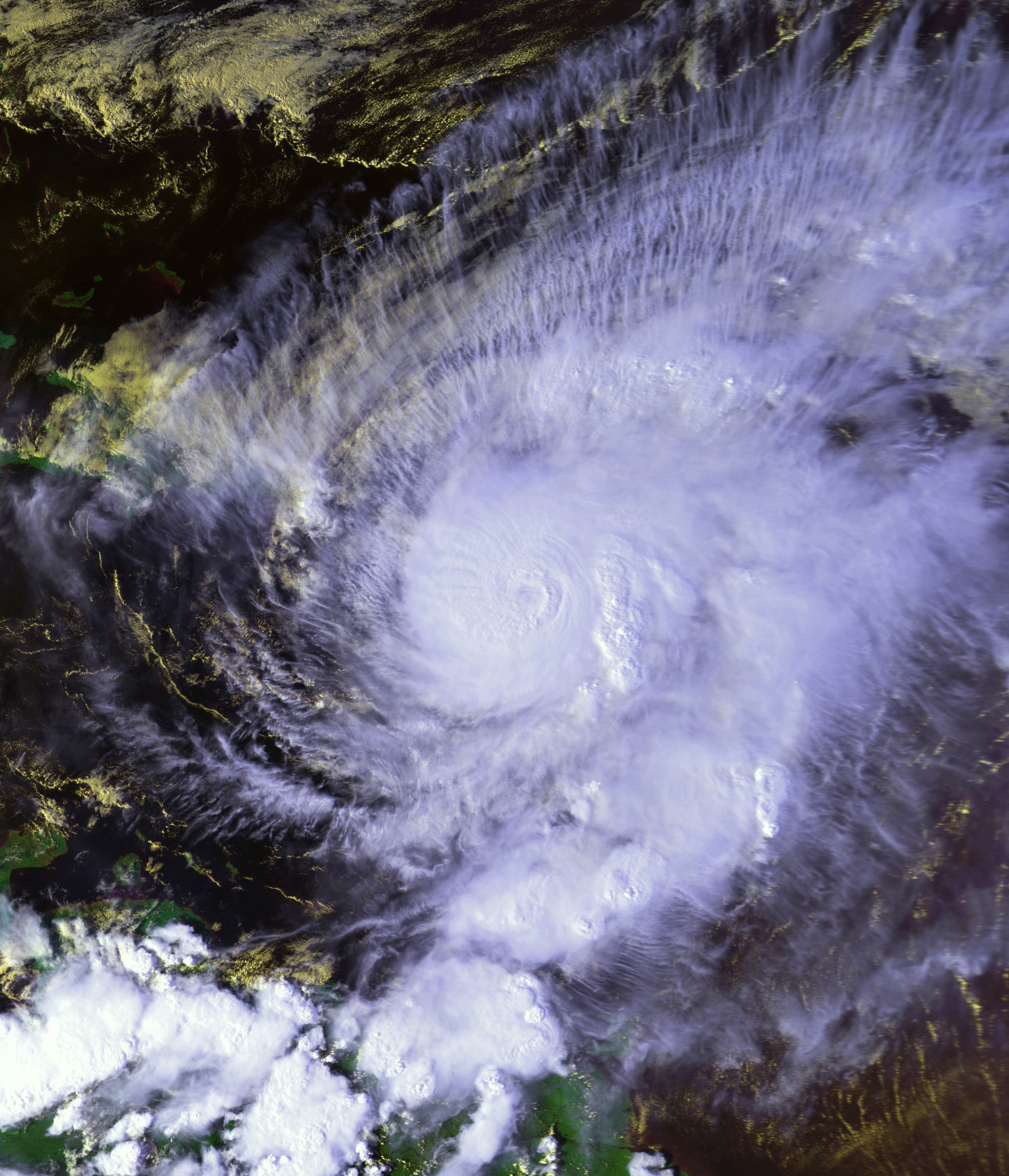 This image shows Hurricane Lenny at peak intensity on November 17. The storm's maximum sustained winds at the time were about 155 mph. This image was produced from data from NOAA-14, provided by NOAA.